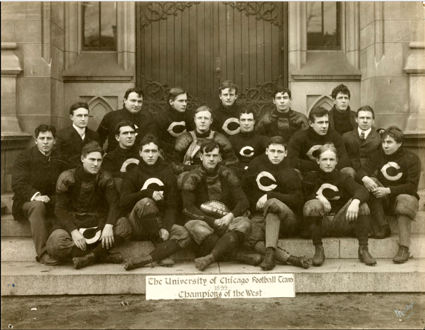 The 1899 Western Conference champions, the 1899 University of Chicago Maroons football team.